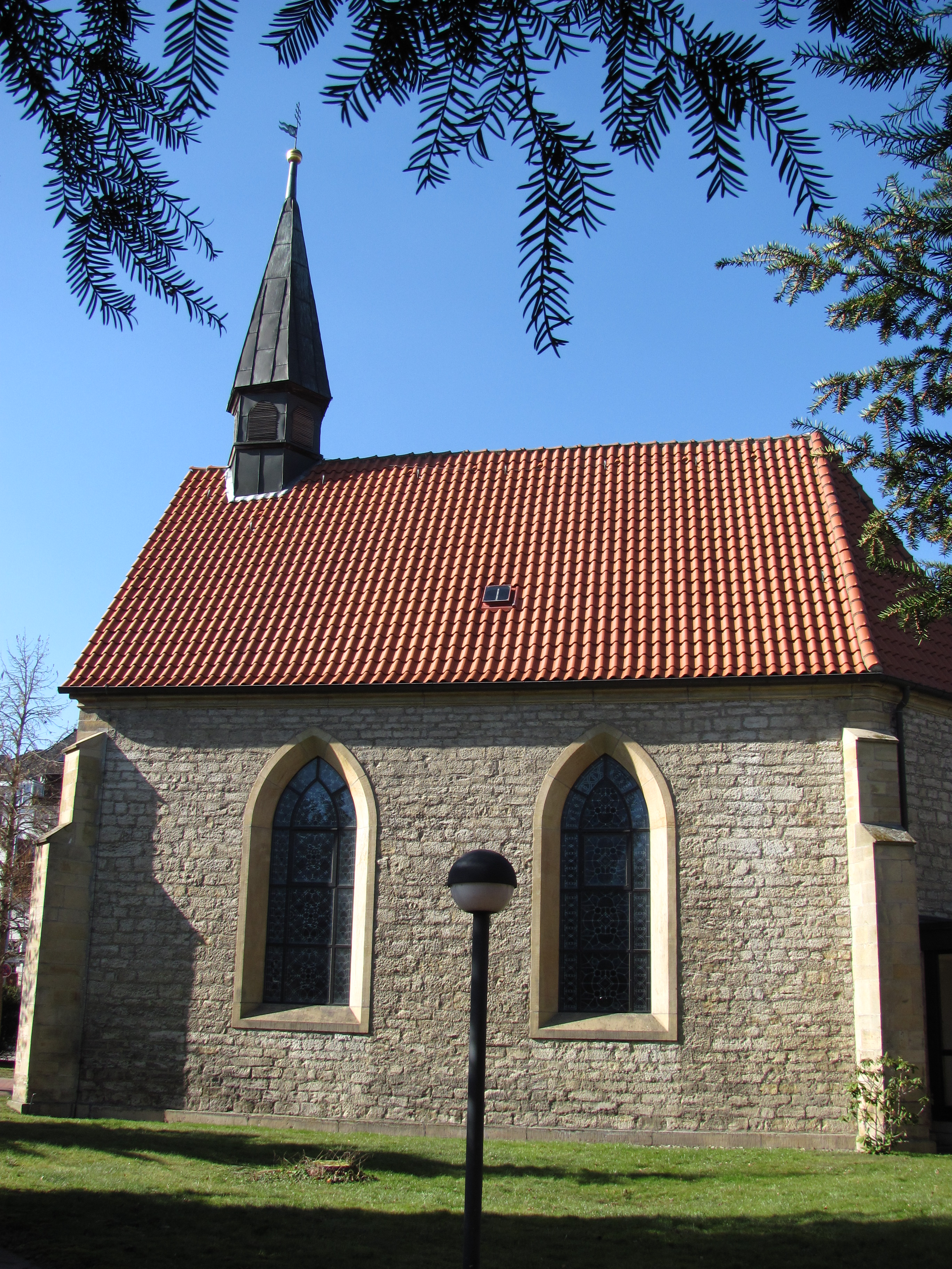 Catholic Church, Bad Salzdetfurth-Wesseln, Lower Saxony, Germany